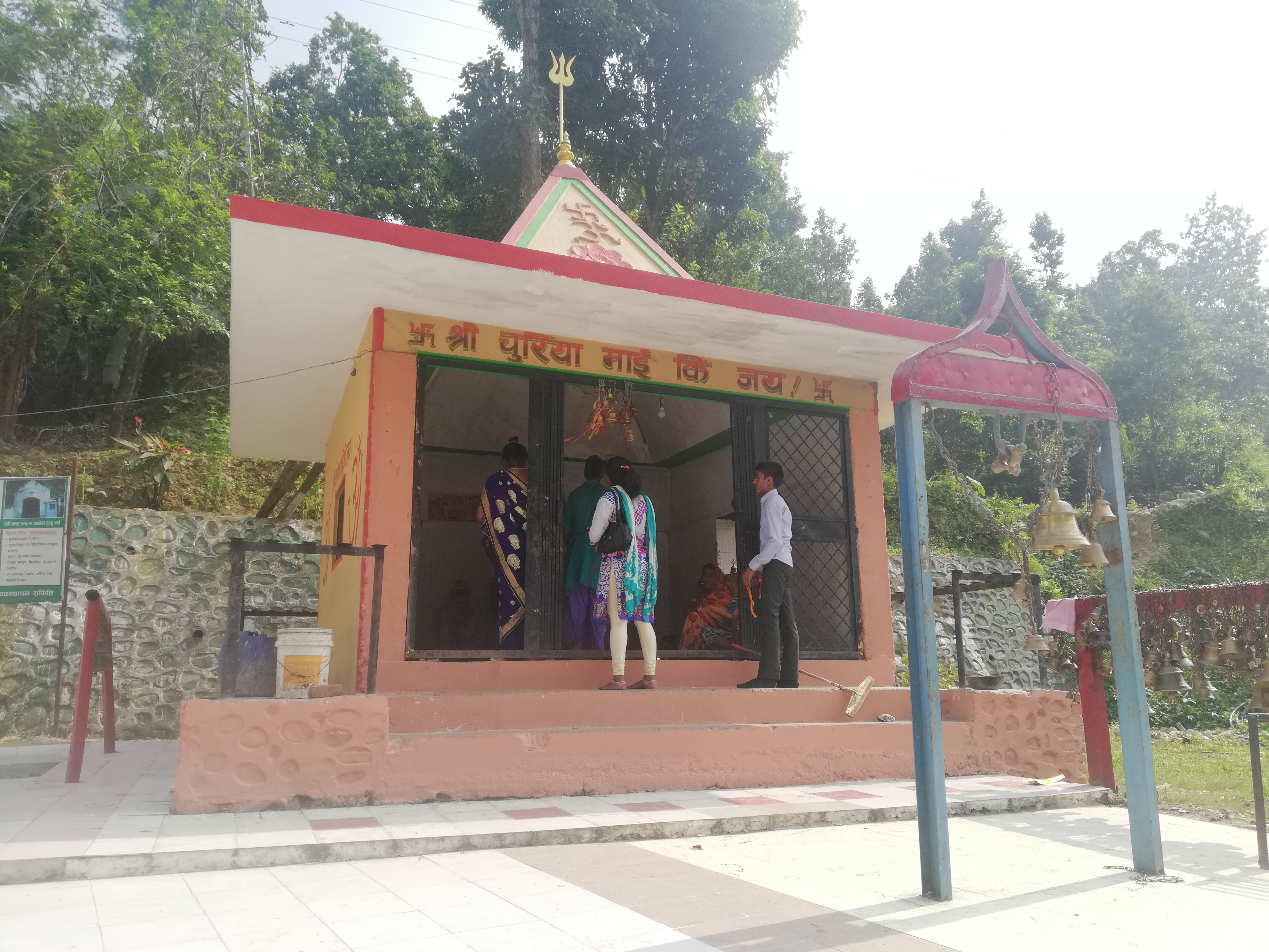 Churiya Mai Temple at Amlekhganj, Bara, Nepal Churiya Mai temple lies on the Hetauda - Birgunj Highway built during Rana era but this one in photograph is newly build as the old one was hit by a truck. It is believed that the Mai protects their devotees from accidents, crash or any types of unpleasant situations.